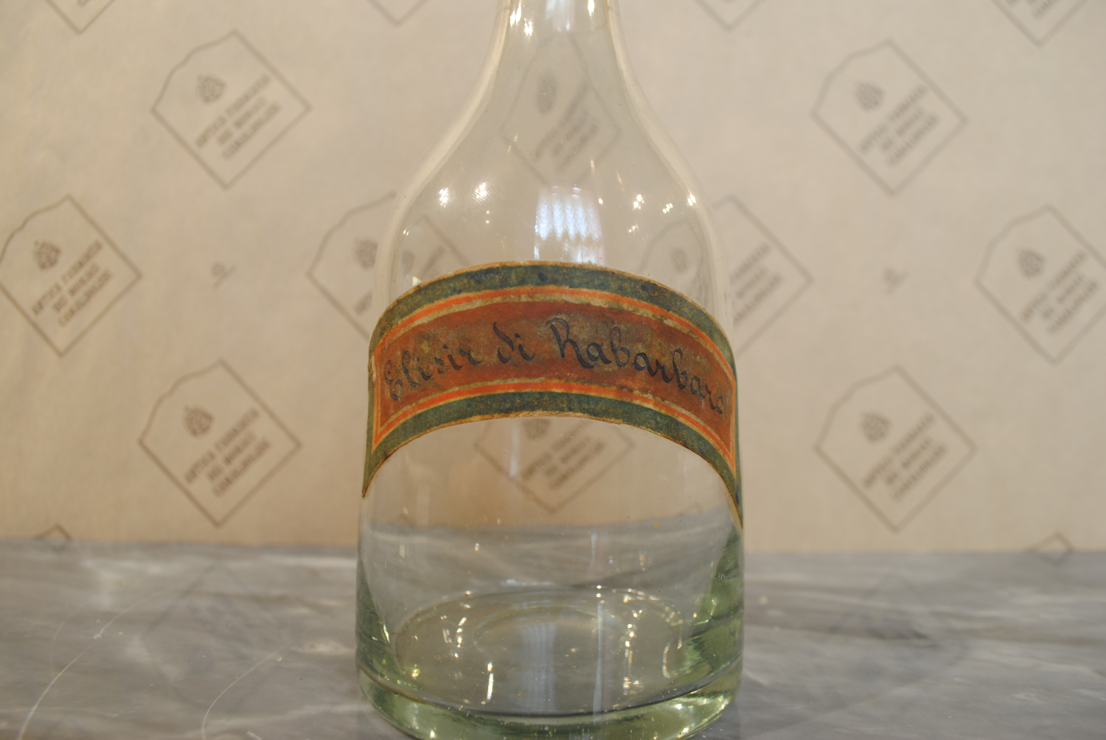 ancient bottle of rhubarb elixir